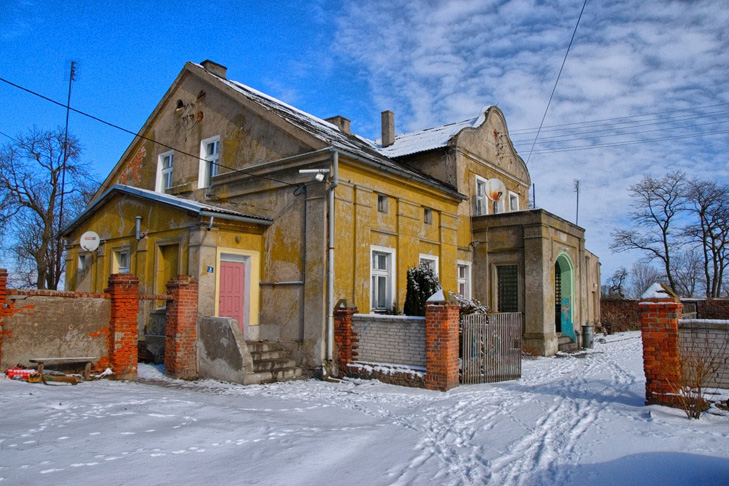 Białotul folwark